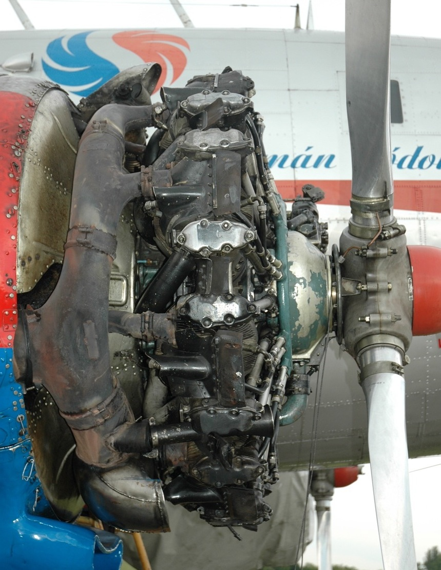 Shvetsov AS-62IR radial piston engine, mounted on Lisunov Li-2